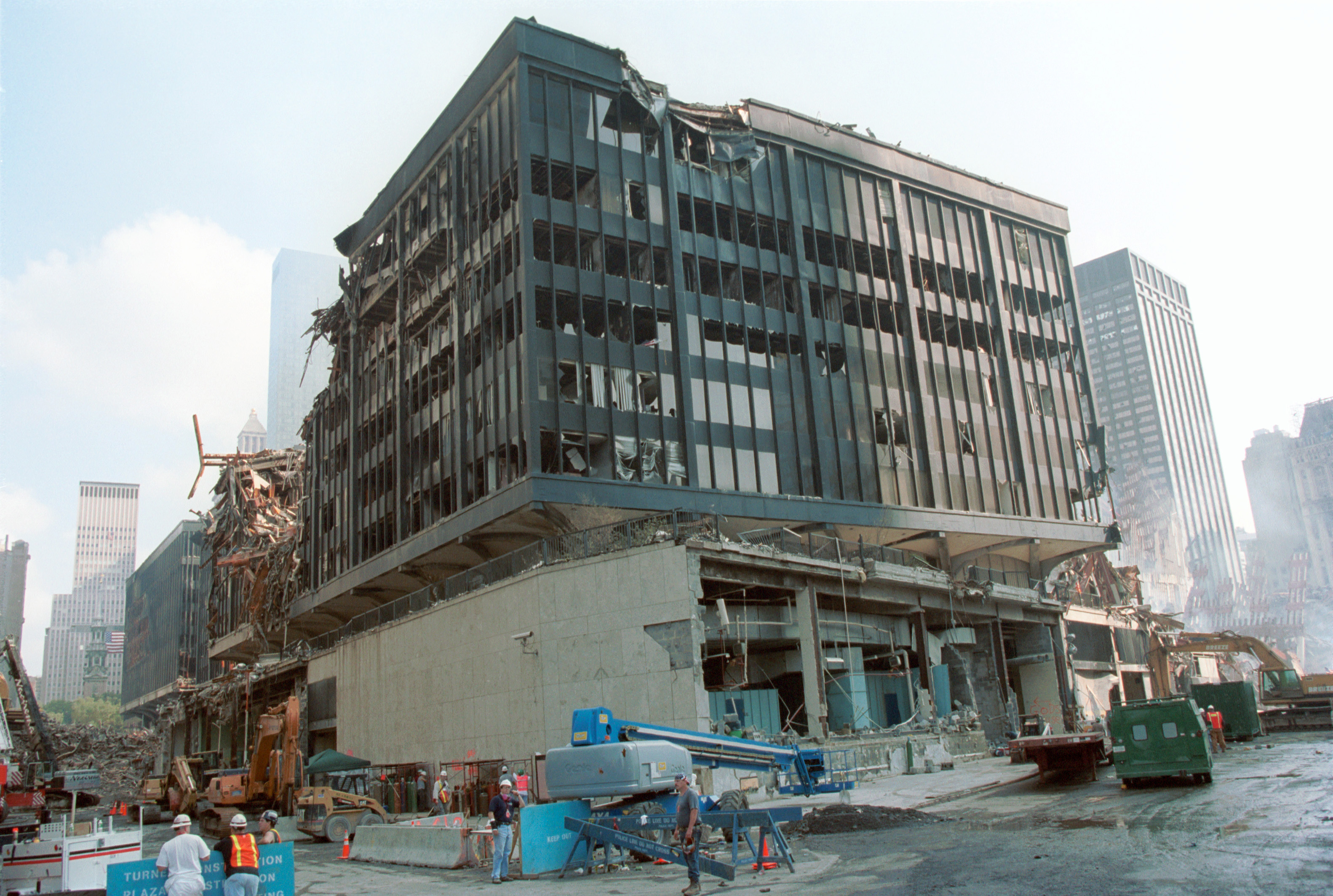 Original description: "U.S. Custom- house World Trade Center Building #6 in aftermath of a terrorist attack."